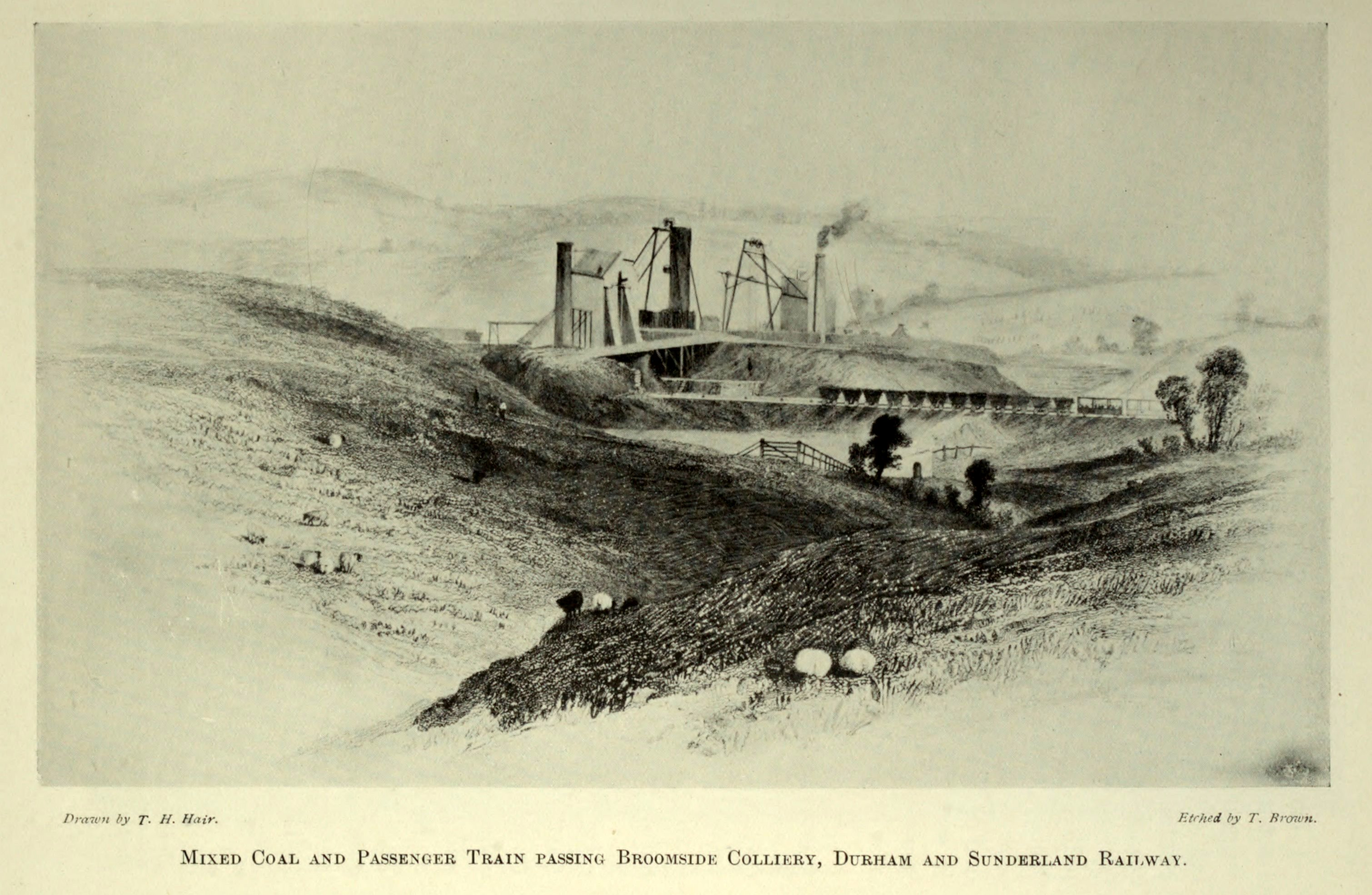 Image from Tomlinson;s "The North Eastern Railway" Image filename closely matches description in work. For a list of plates see page ix in book , eg - (or use index) The images are near to the relavent text in the work